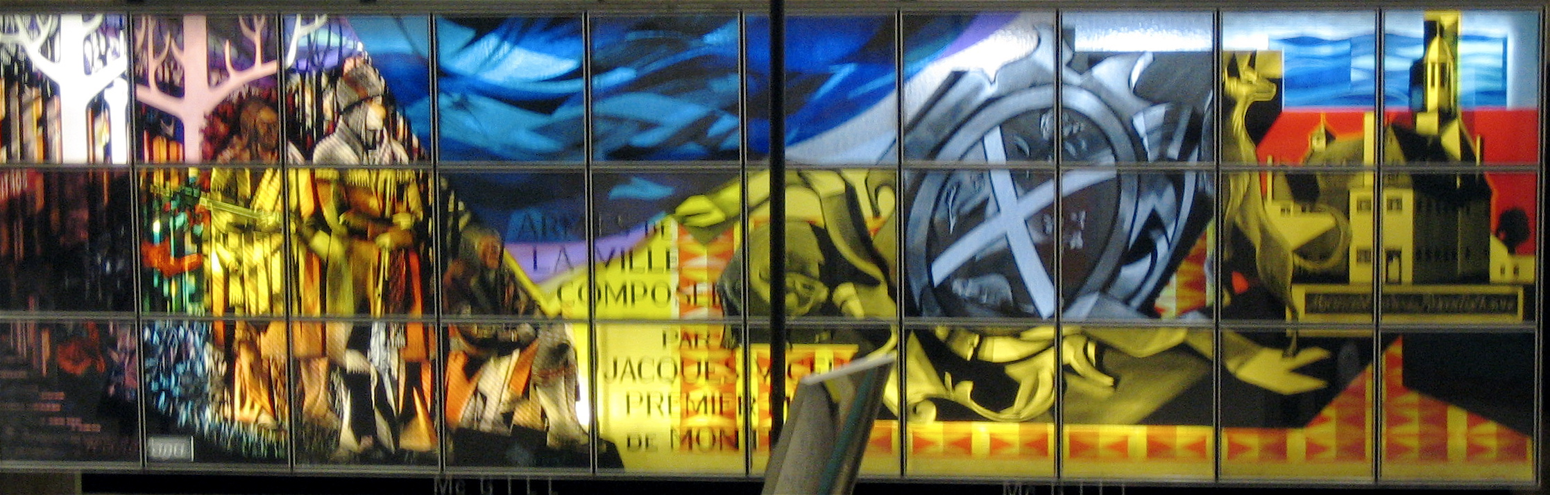 Stained glass, McGill metro station, Montreal. First of five pieces from East to West.